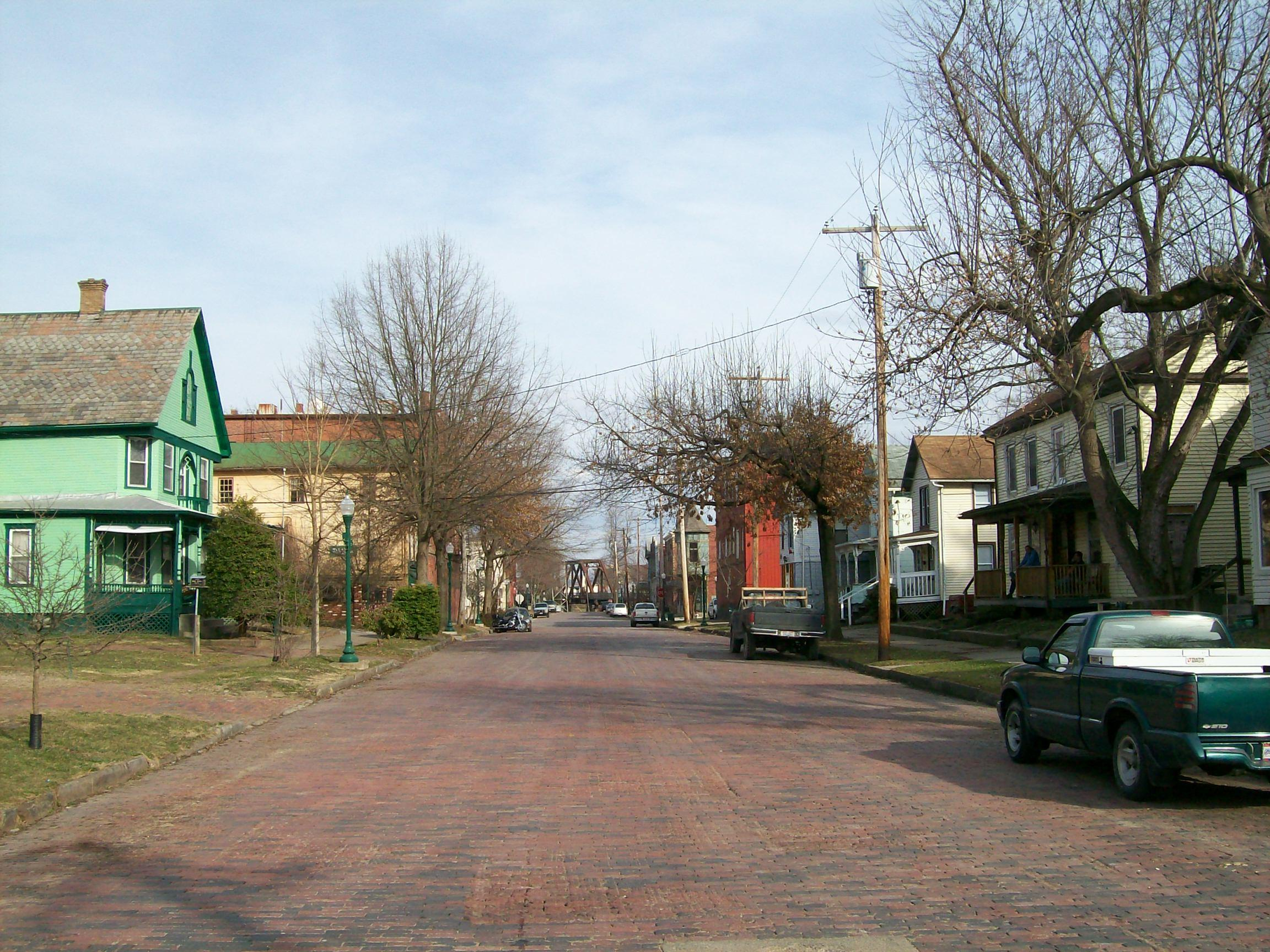 Harmar Historic District in Harmar, a suburb of Marietta, Ohio. Maple Street is shown of the district looking east to the Muskingum River. The district is on the NRHP for Washington County. Taken March 10, 2010.